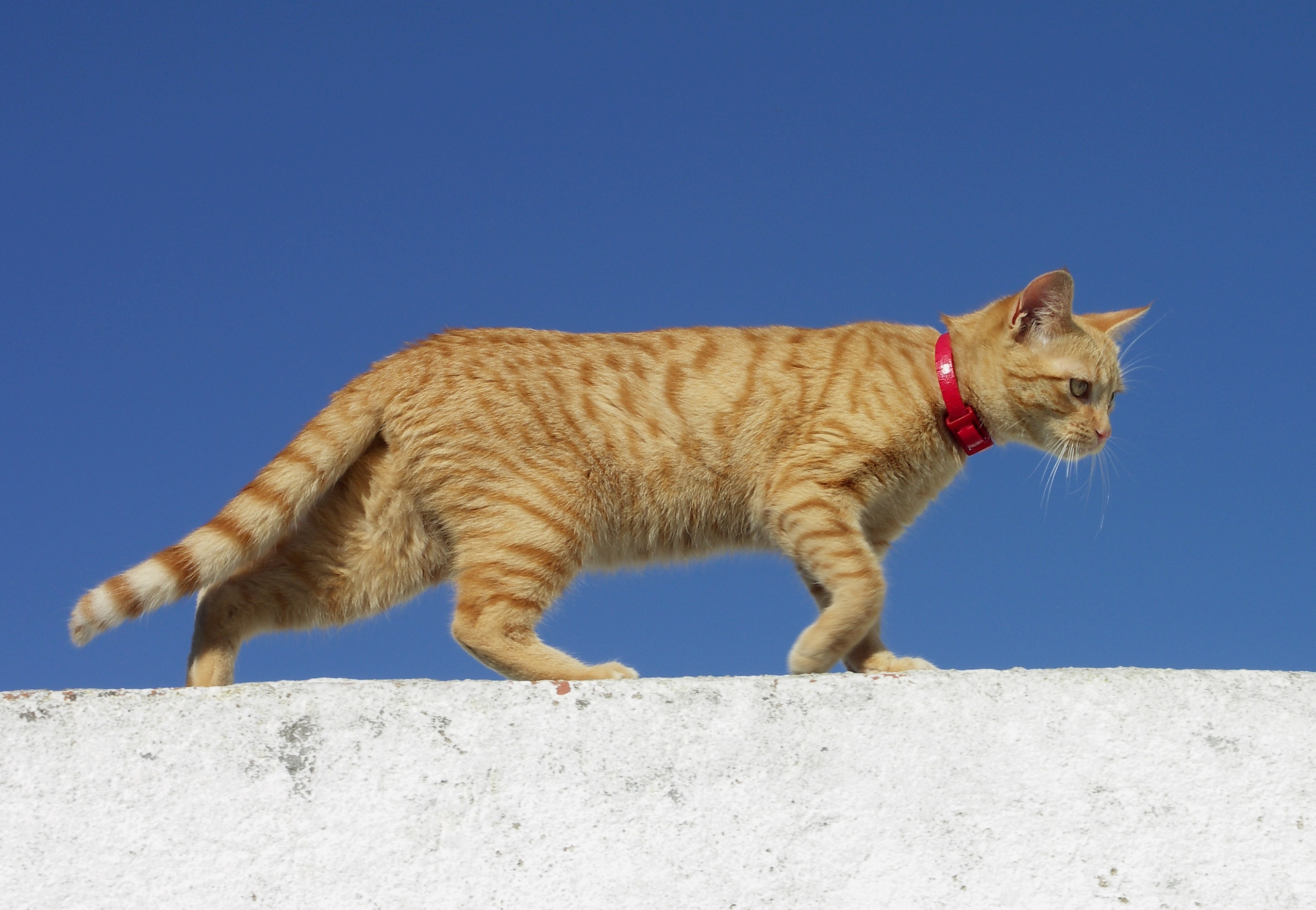 An orange cat. Photo taken in Porto Covo, west coast of Portugal